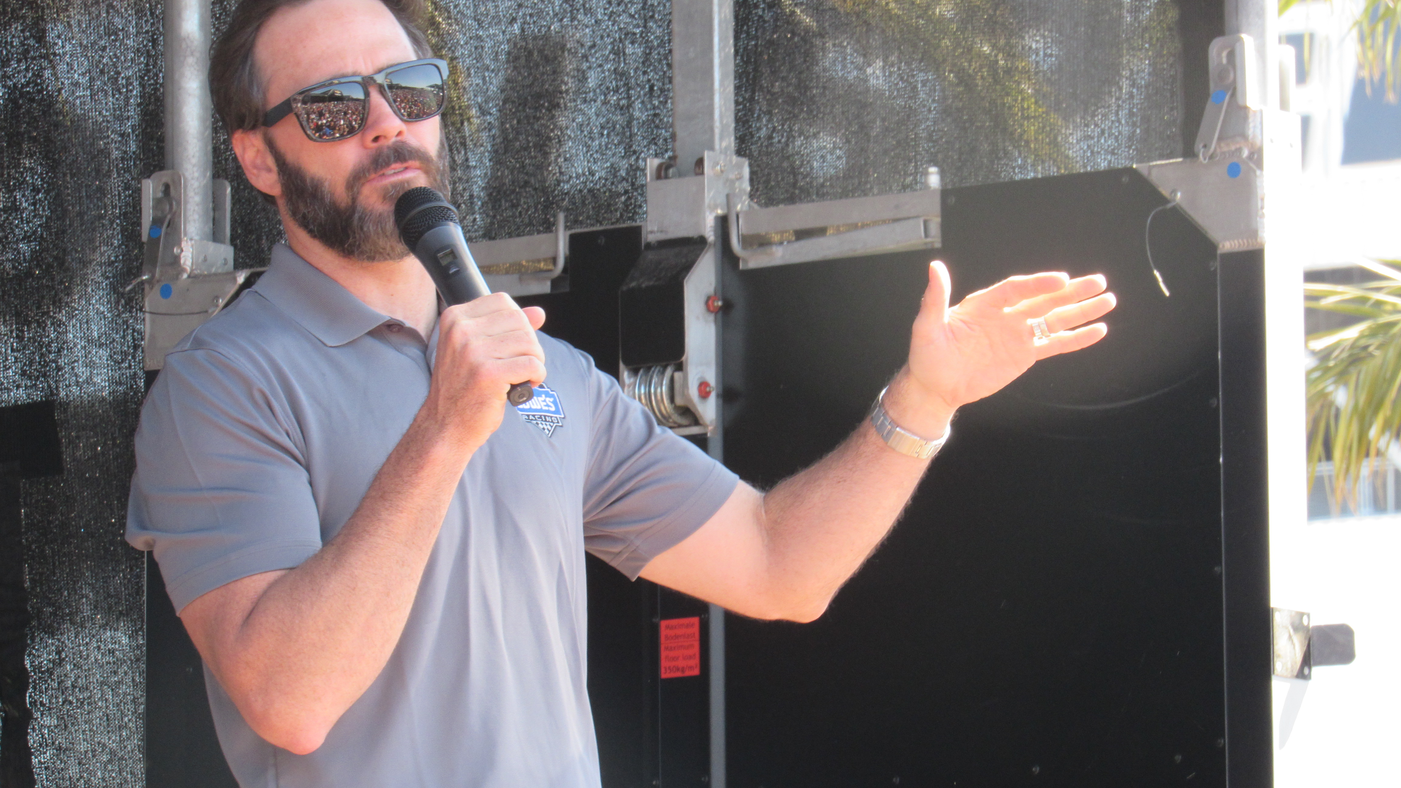 Jimmie Johnson at the Chevy Fan Zone at Daytona International Speedway in 2017.